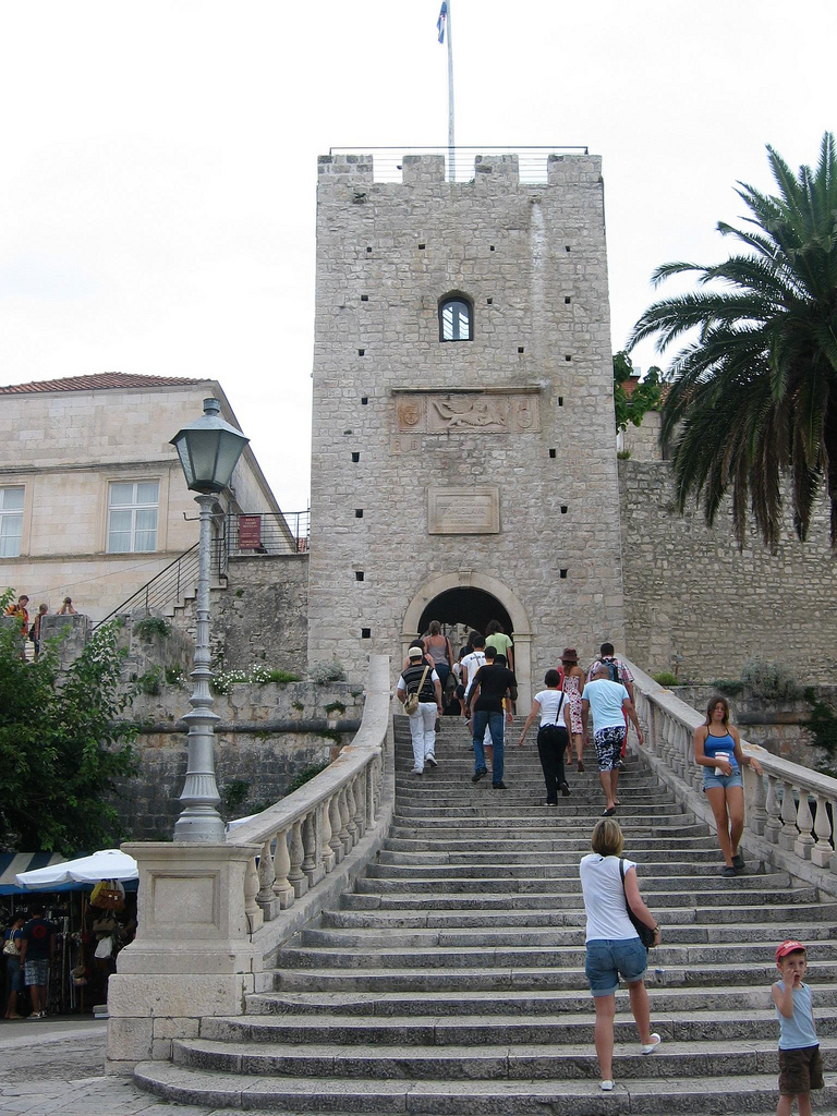 Gate tower, Korcula old town